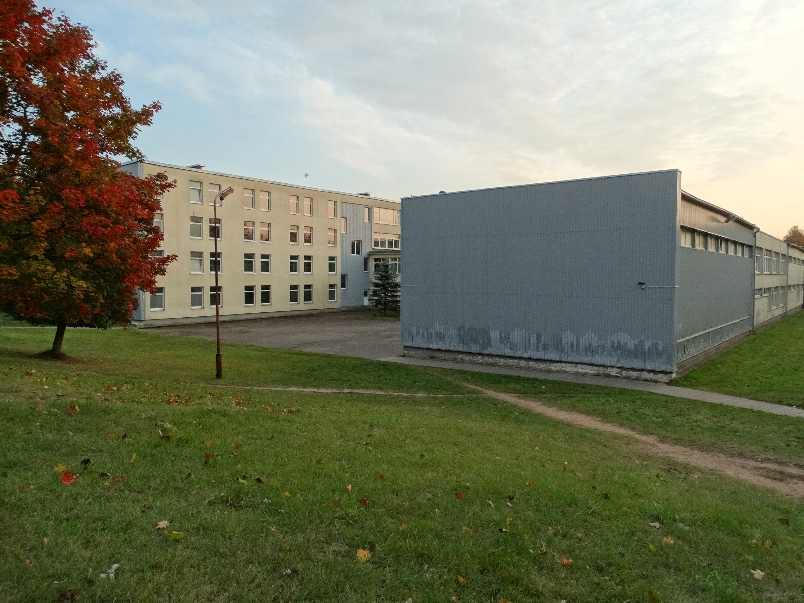 Dainava Basic School, Alytus, Lithuania